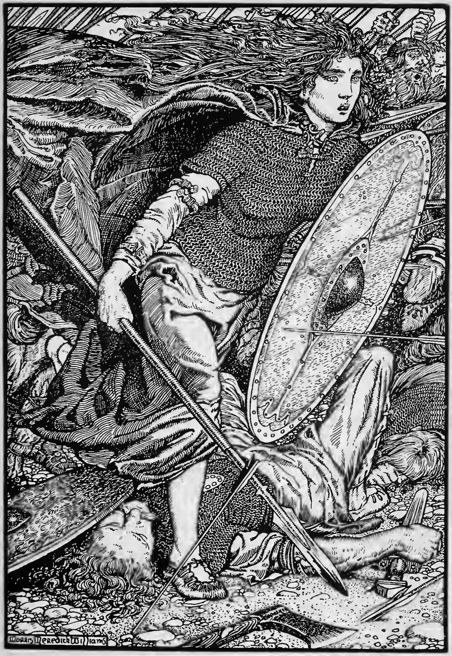 Imaginary image of storied Viking shieldmaiden Lagertha (Lathgertha, Ladgerda), wife of Ragnar Lodbrok